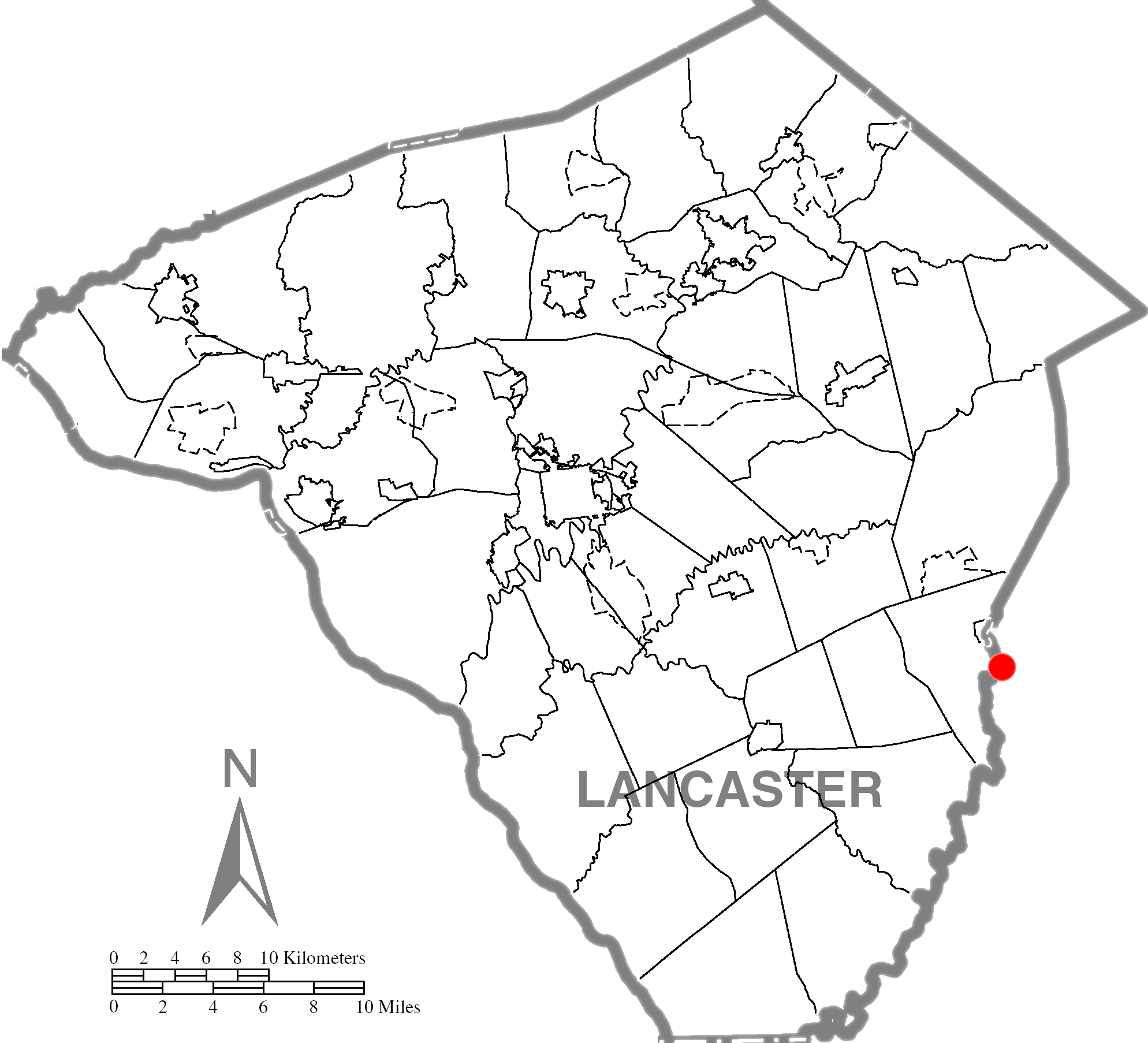 Lancaster County dot map of the Mercer's Mill Covered Bridge.